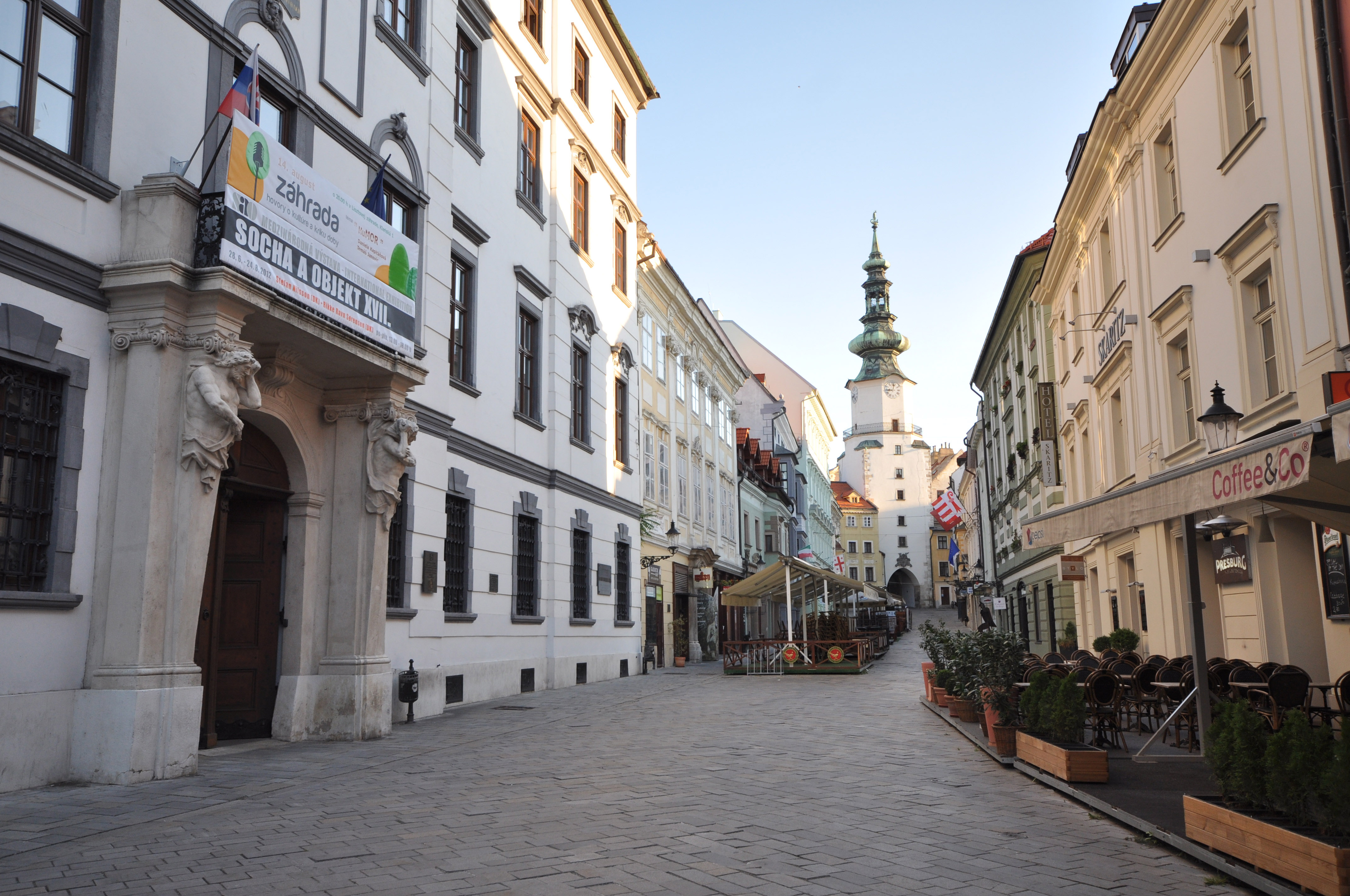 In Bratislava, Slovakia, Michael's Gate is the only city gate that has been preserved of the medieval fortifications and ranks among the oldest town buildings. Built about the year 1300, its present shape is the result of baroque reconstructions in 1758, when the statue of St. Michael and the Dragon was placed on its top. The tower houses the Exhibition of Weapons of Bratislava City Museum. In the medieval times the town was surrounded by fortified walls, and entry and exit was only possible through one of the four heavily fortified gates. On the east side of the town, it was the Laurinc Gate, named after Saint Lawrence, in the south it was the Fishermen's Gate (Halász kapu), (Rybná brána). This was the smallest gate of the four, used mainly by the fishermen entering the city with fish caught in the river Danube. On the west side it was the Vydrica Gate (Vödric kapu), (Vydrická brána), also called the Dark Gate or Black Gate, since it was like a tunnel—dark and long. In the north, there was St. Michael's Gate named after St. Michael and the St. Michael church that stood in front of it (outside the town wall). Later on it was put down and materials gained from it were used in the building of additional town walls